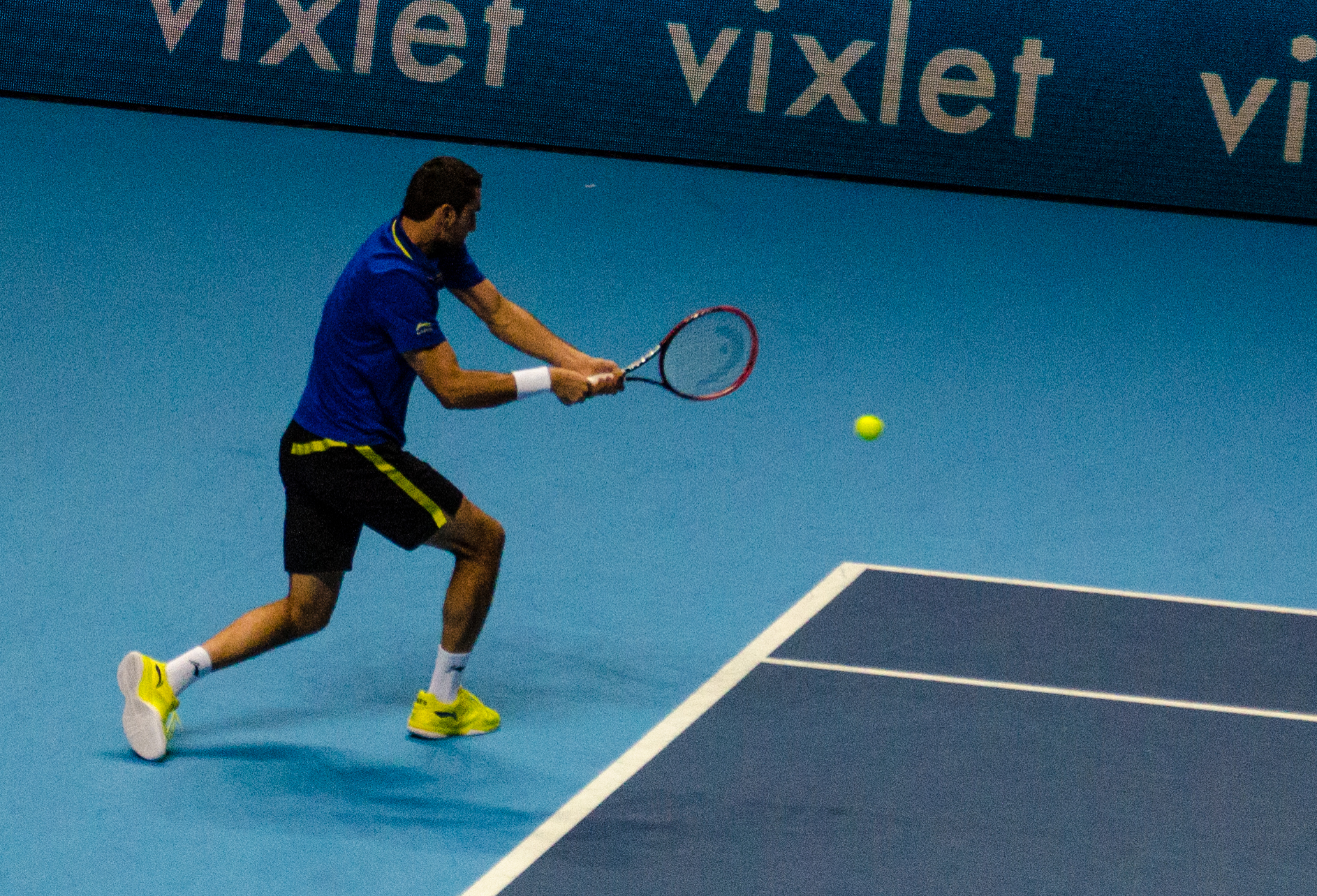 This is a photo of a tennis game at the ATP World Tour Finals.